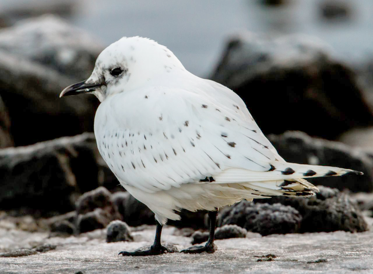 Ivory Gull - Pagophila eburnea - Ísmáfur